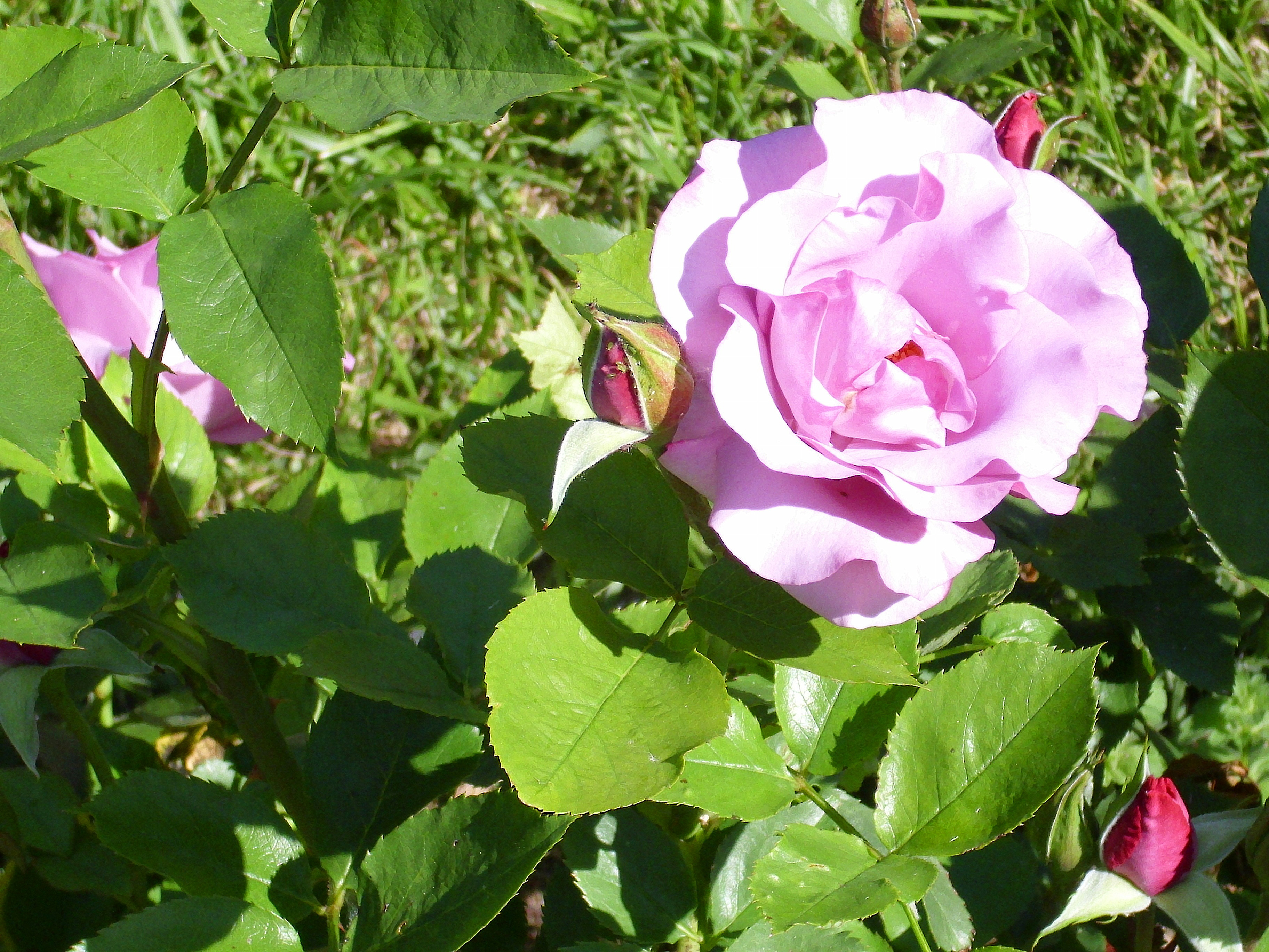 Rosa 'Dioressence' Delbard-Chabert 1984, in the "Rosaleda del Parque del Oeste" in Madrid. Identified by sign.